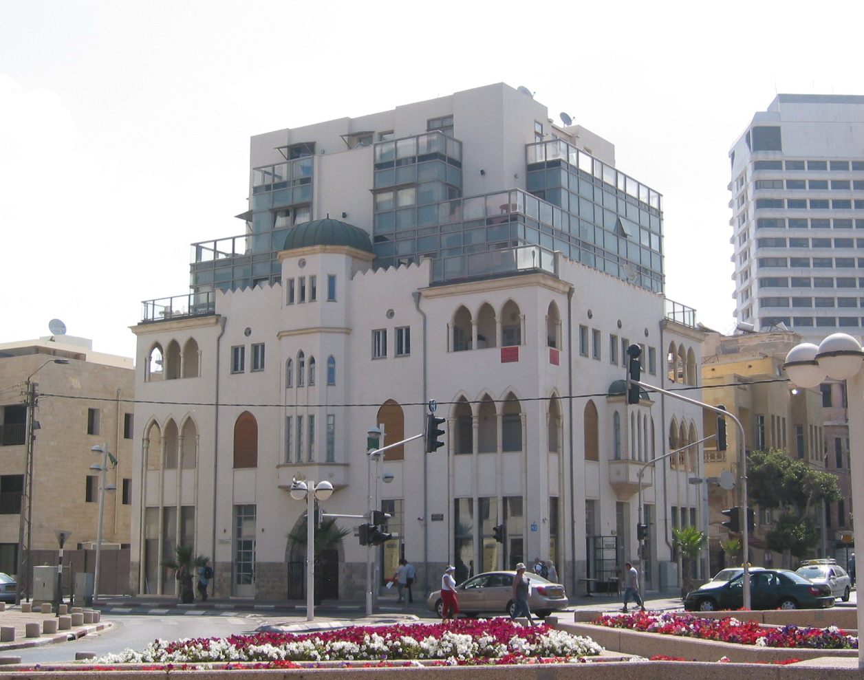 Eclectic style house, Allenby on Hayarkon Streets, Tel Aviv